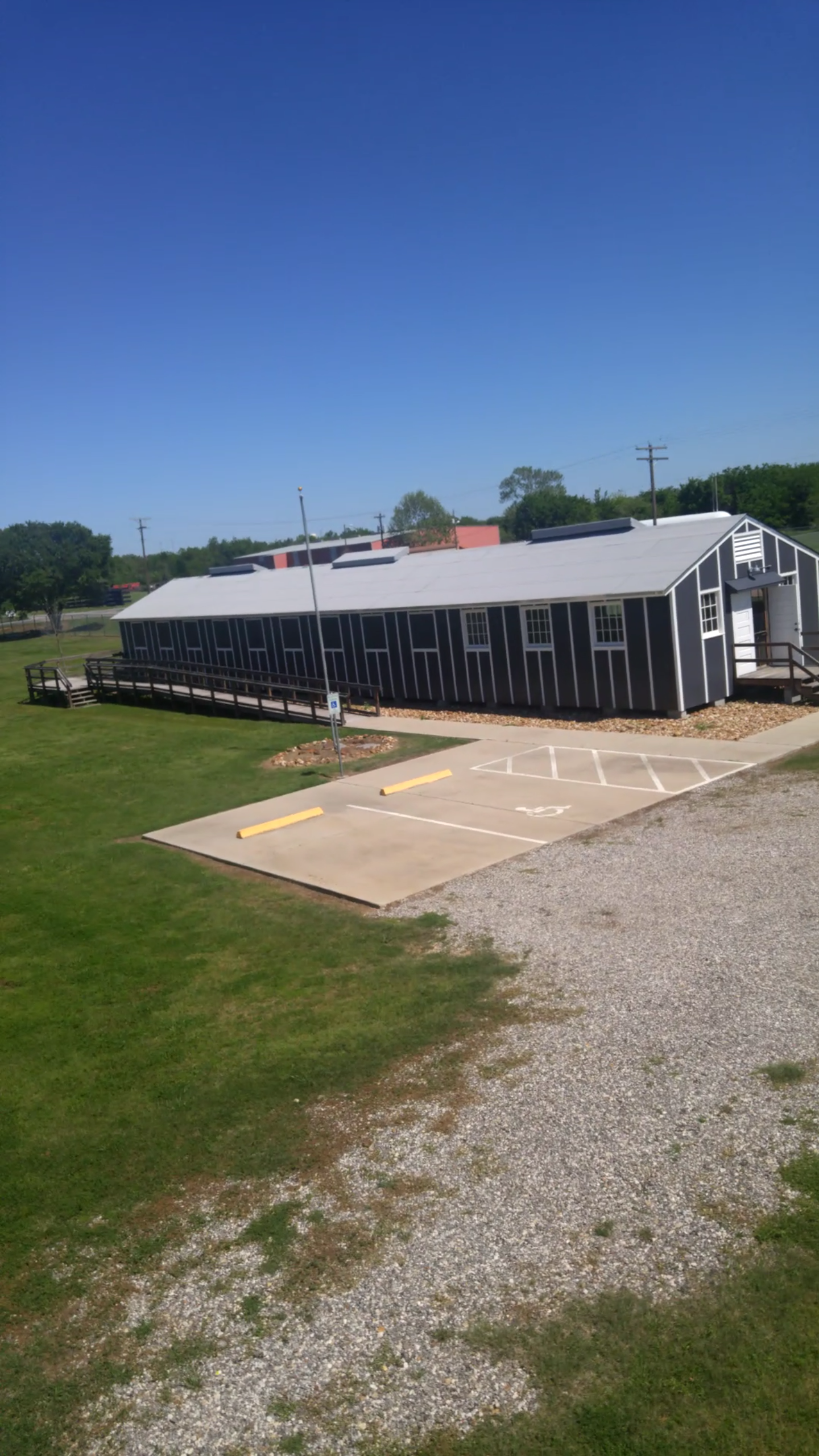 Replica Barrack now home to camp Hearne museum